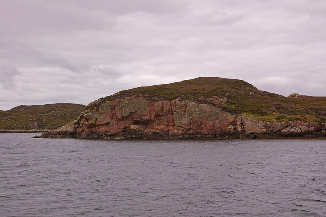 Eilean a ' Ehuic, 3 km from Polbain, Highland, Great Britain. Taken from MV Summer Queen